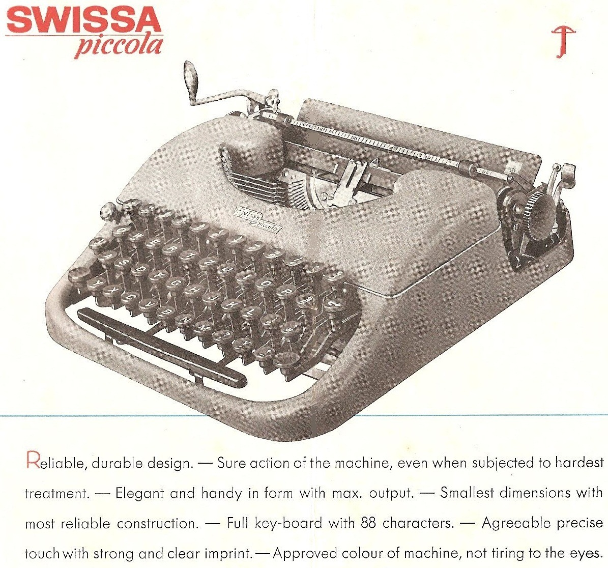 (deutsch) Auch gültig für die Patria Schreibmaschine. Quelle: Sammlung H.&M. Frei 2013